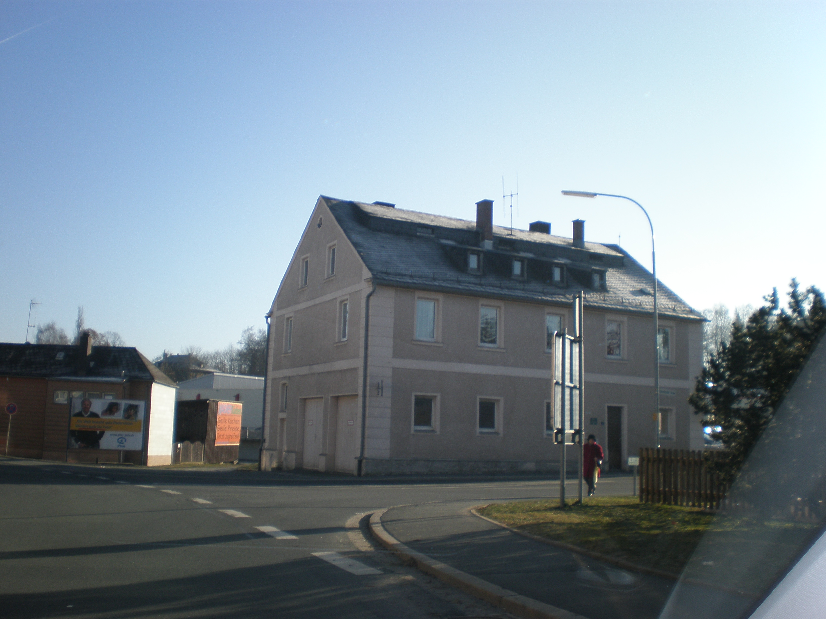 The so called Kommunbrauhaus in Münchberg